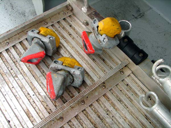 Automatic twistlock, used to attach containers on a container ship.